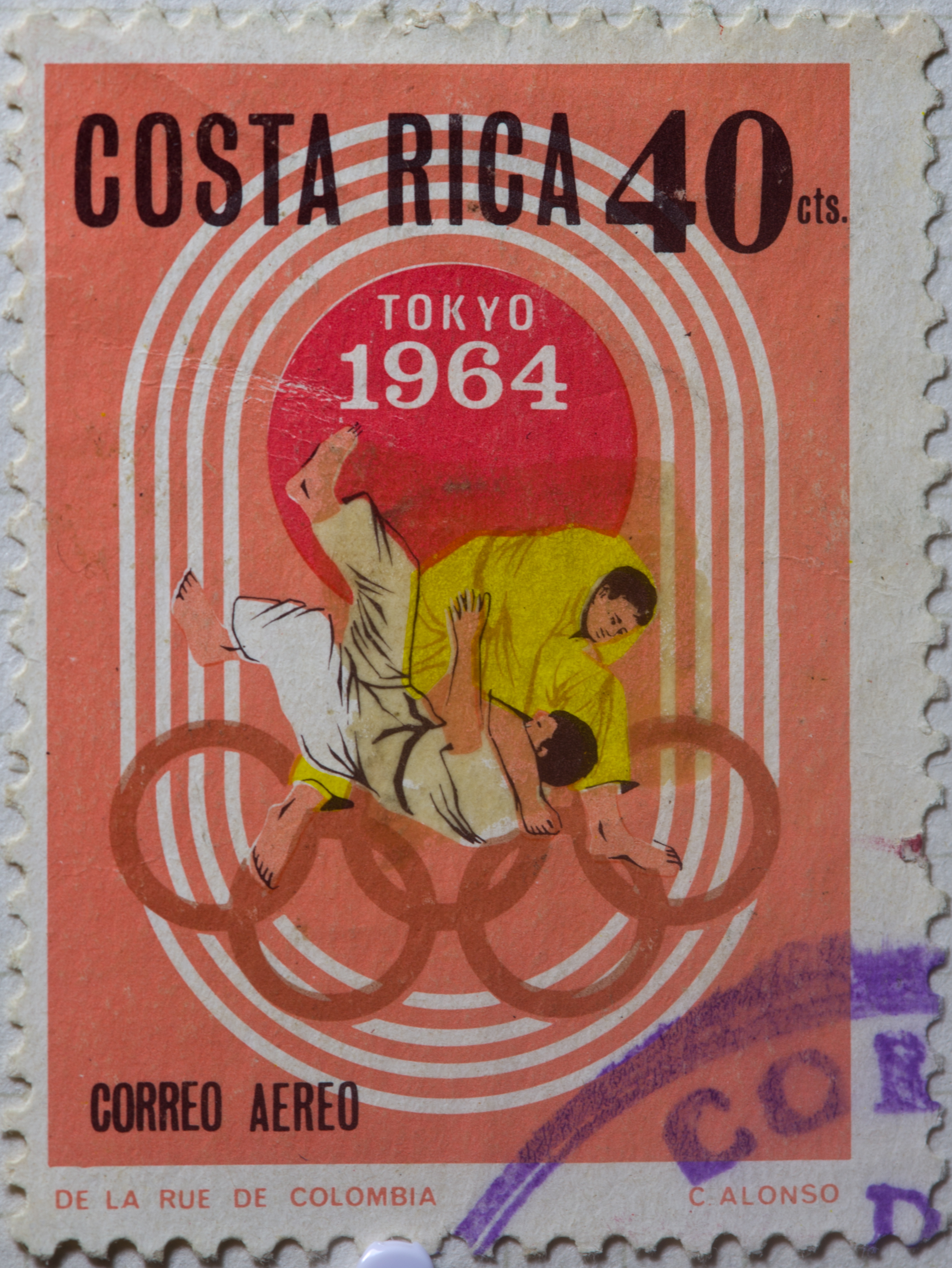 Costa Rica Olympics Tokyo 1964